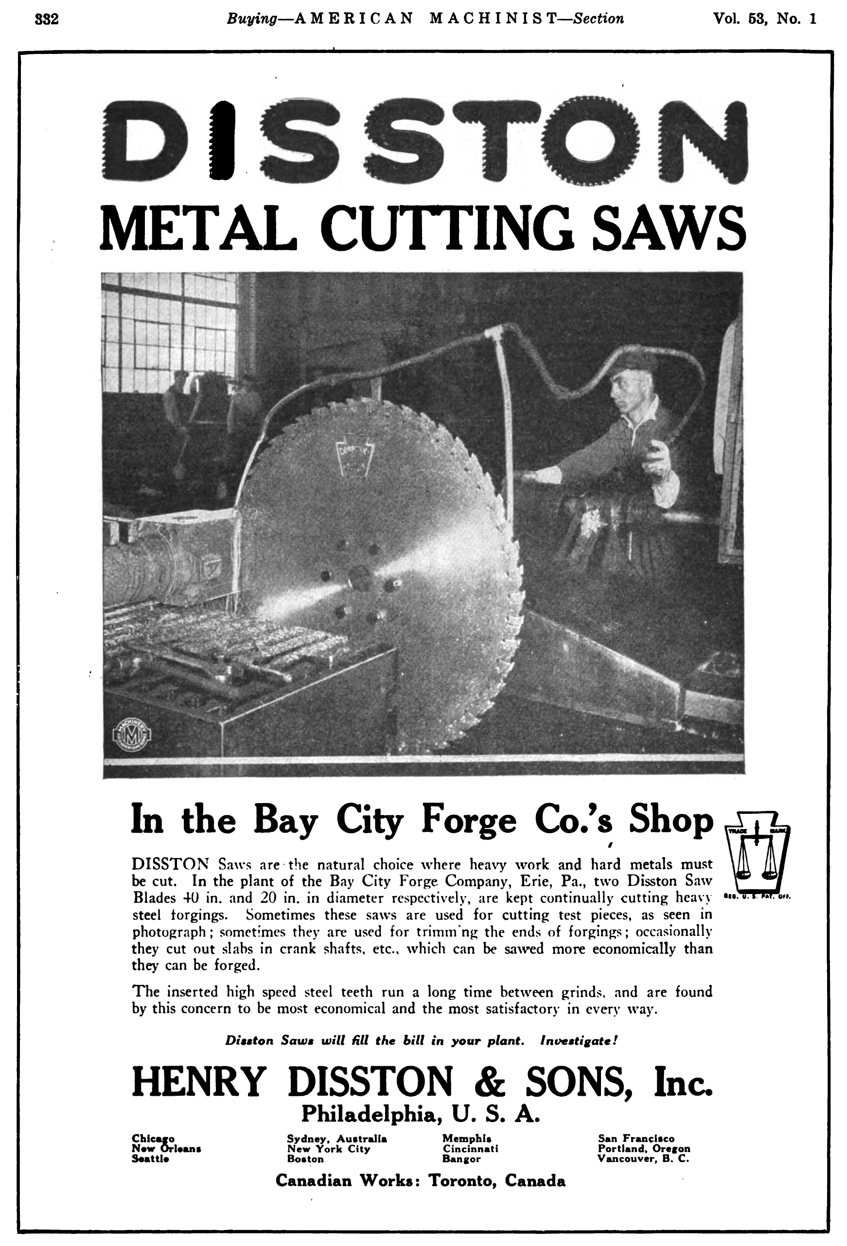 Henry Disston & Sons, Inc, saw blade advertisement in American Machinist, volume 53, number 1, July 1, 1920, page 332.